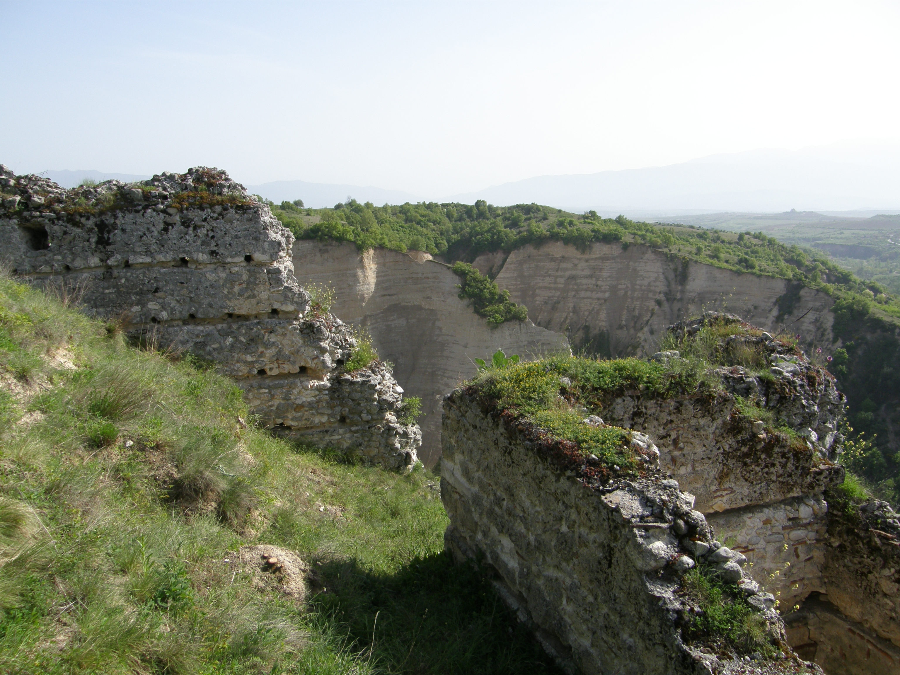 "Despot - Slavova Fortress" It is a small fortification - the oldest and the most solid military facility in the town, constituting a powerful independent fortress with 2-3.50m thick walls and towers. Impressive ruins are left standing until nowadays, at certain places up to 8-10m high. The monument has been partially restored after its field archaelogical exploration. The architectural analysis and the archaeological finds, juxtaposed to the historical events, reveal four periods of construction of the small fortification: one early Byzantine, two Medieval and a fourth period, assosiated with despot Alexiy Slav /1208-1230/ whereto the bigger part of the ruins, preserved until nowadays, date back. It is a monument of culture of national significance. Despot Slavova Fortress, Melnik...